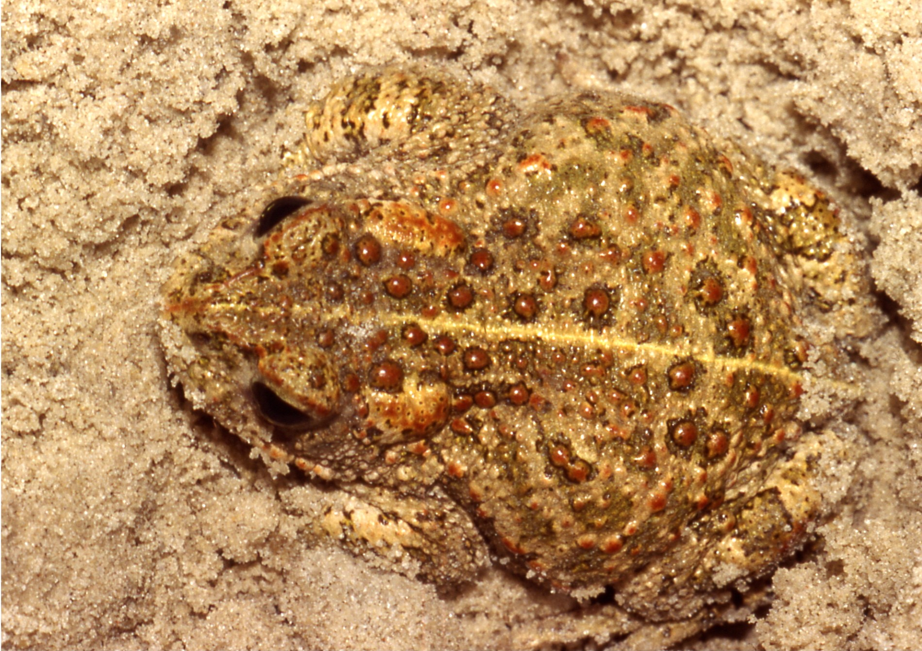 Dorsal side of a Natterjack Toad (Epidalea (Bufo) calamita); male specimen.